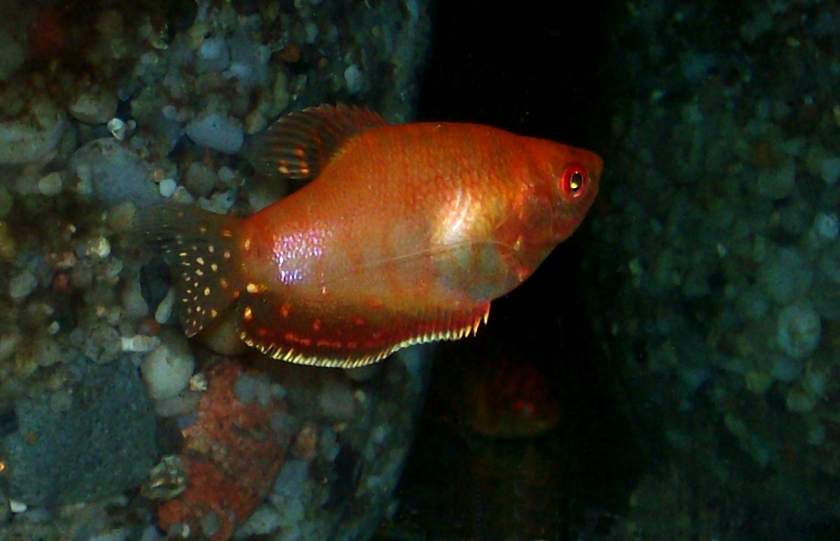 Gurami złoty - Trichogaster trichopterus